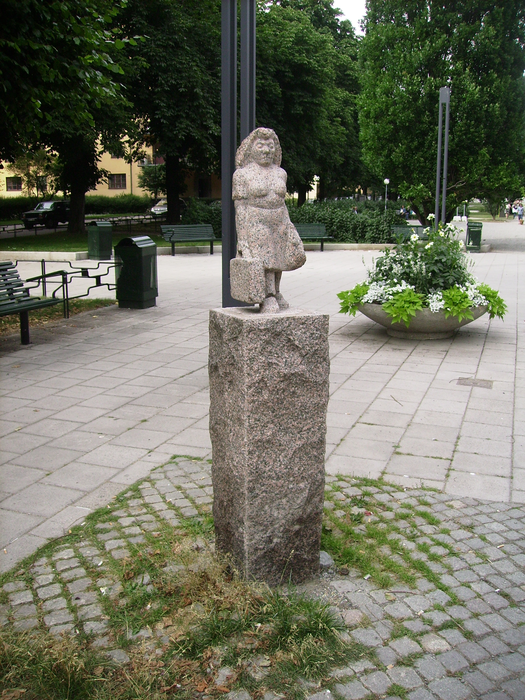 Picture of a statue in Stockholm, Husmorssemester